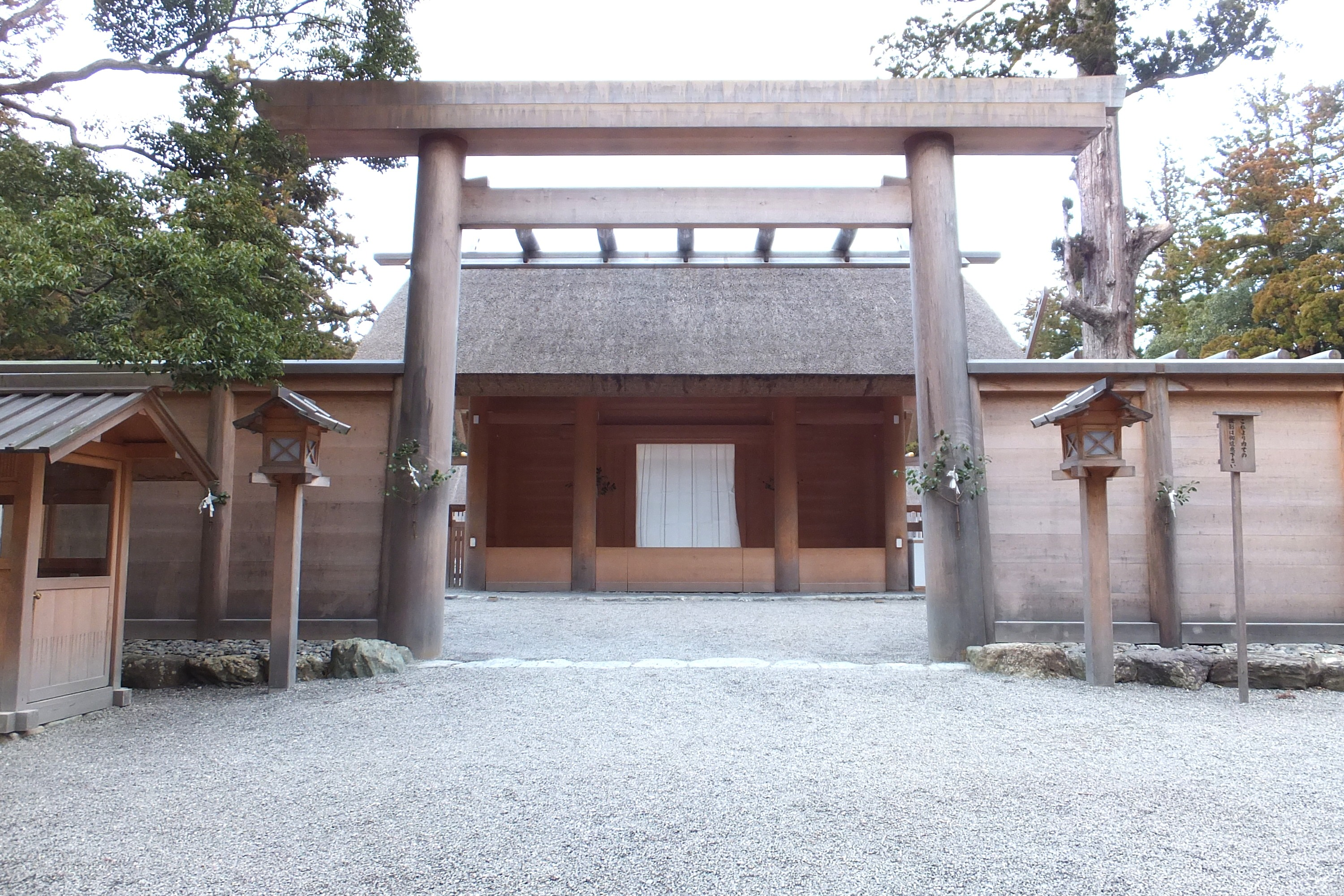 The Toyoukedaijingu (Geku) at Ise city Mie Prf. Japan.